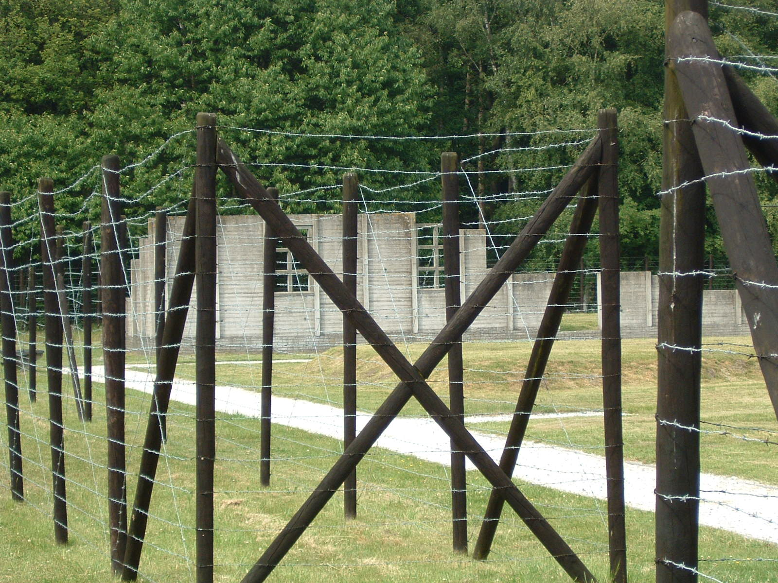 Own photograph Parts of a rebuilt barrack at Dutch Nazi camp Westerbork. Anne Frank stayed in this barrack from August till early September 1944, before she was taken to Auschwitz and then Bergen-Belsen.